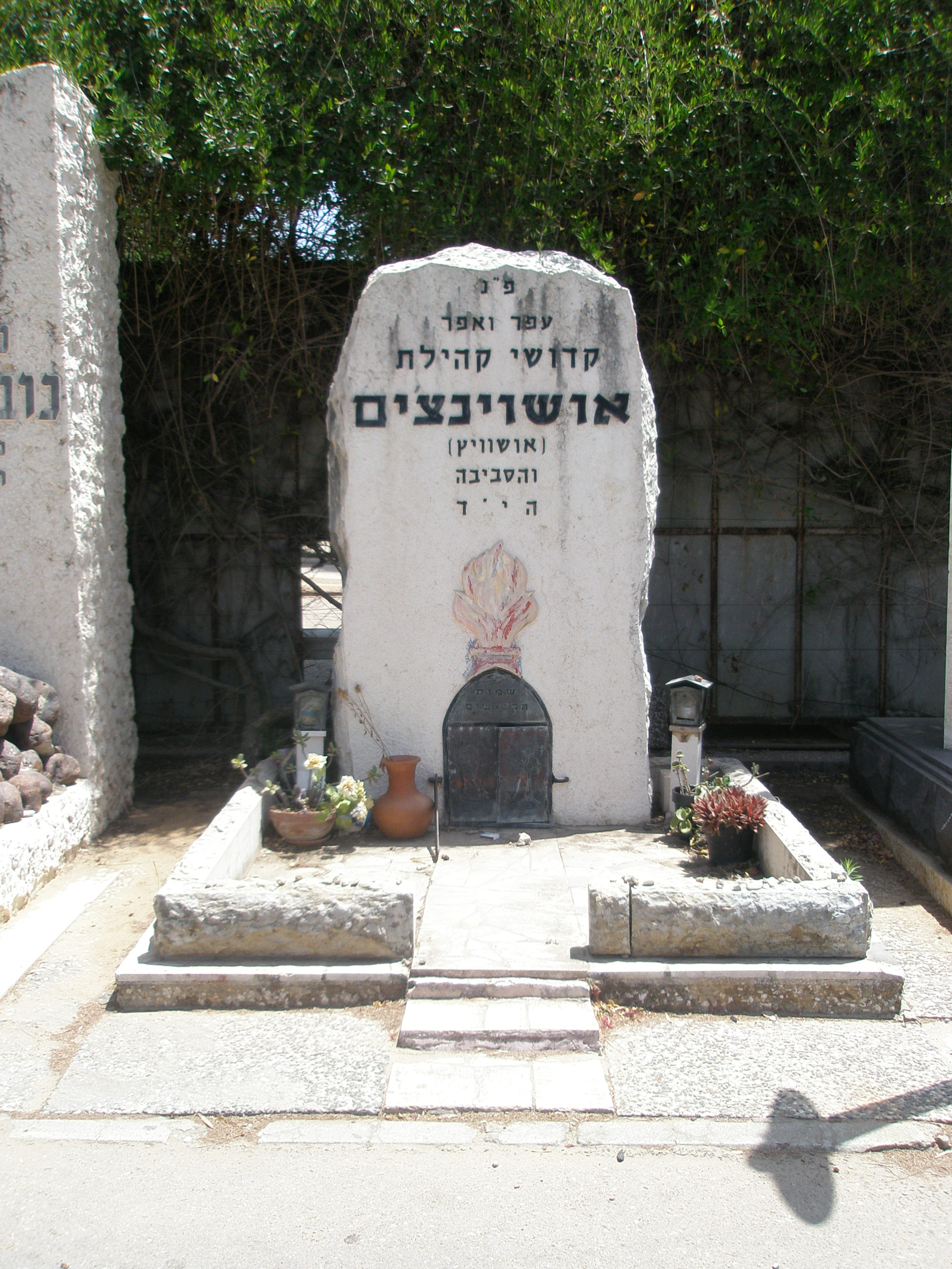 Oświęcim Jewery memorial at Kiriat Shaul cemetery